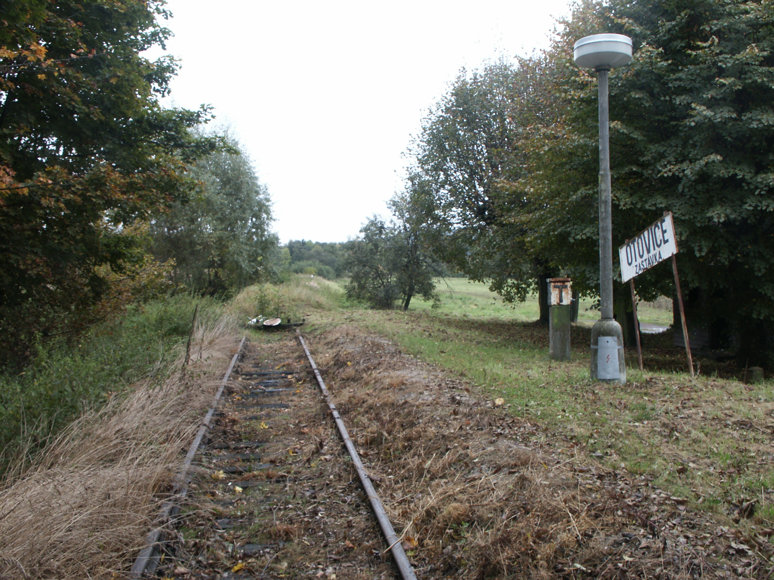 Abandoned railway track, Otovice, Czech Republic (abolished connection to Silesia)